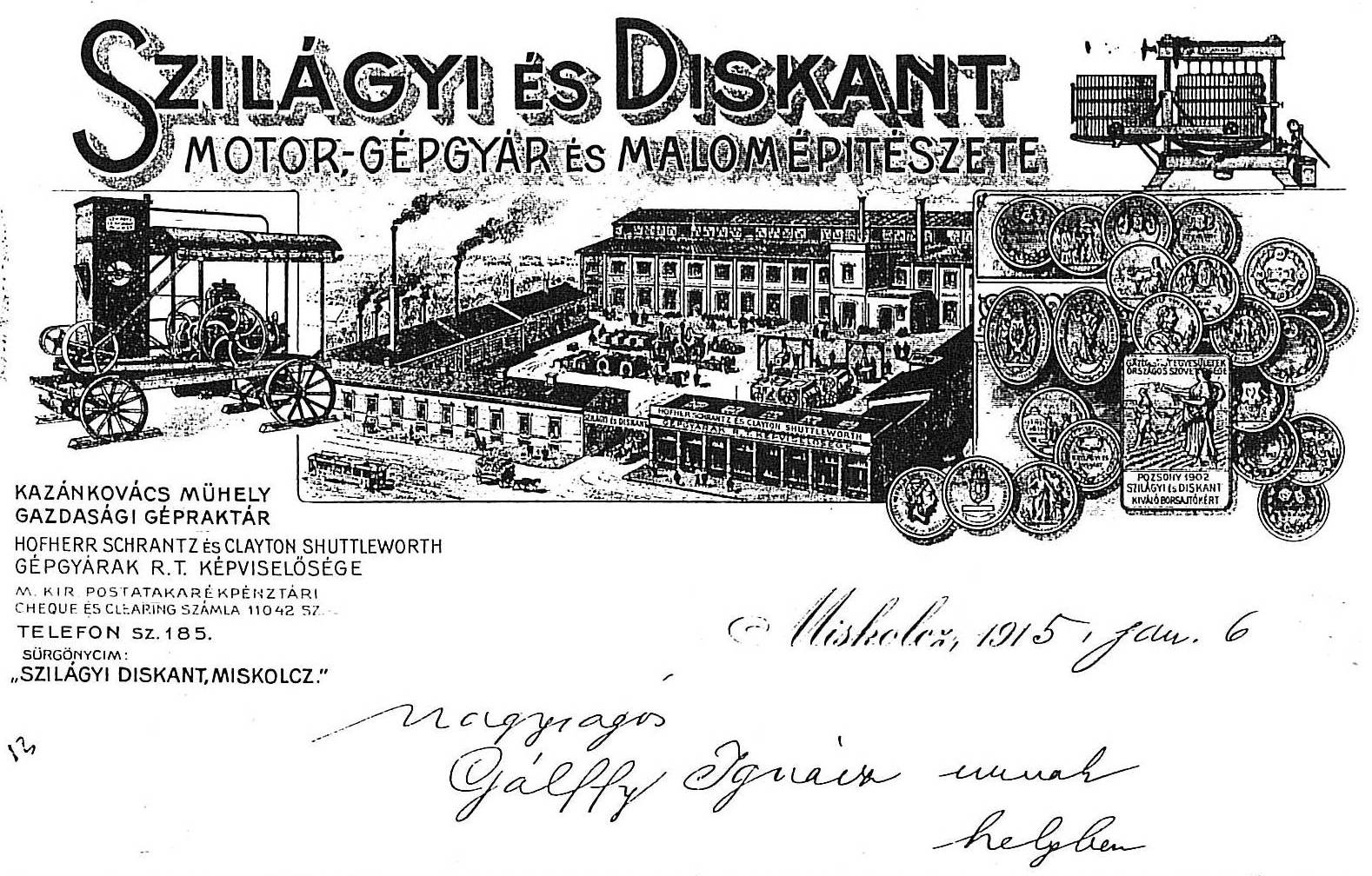 Letter-paper of Szilagyi & Diskant Machine Factory, 1915